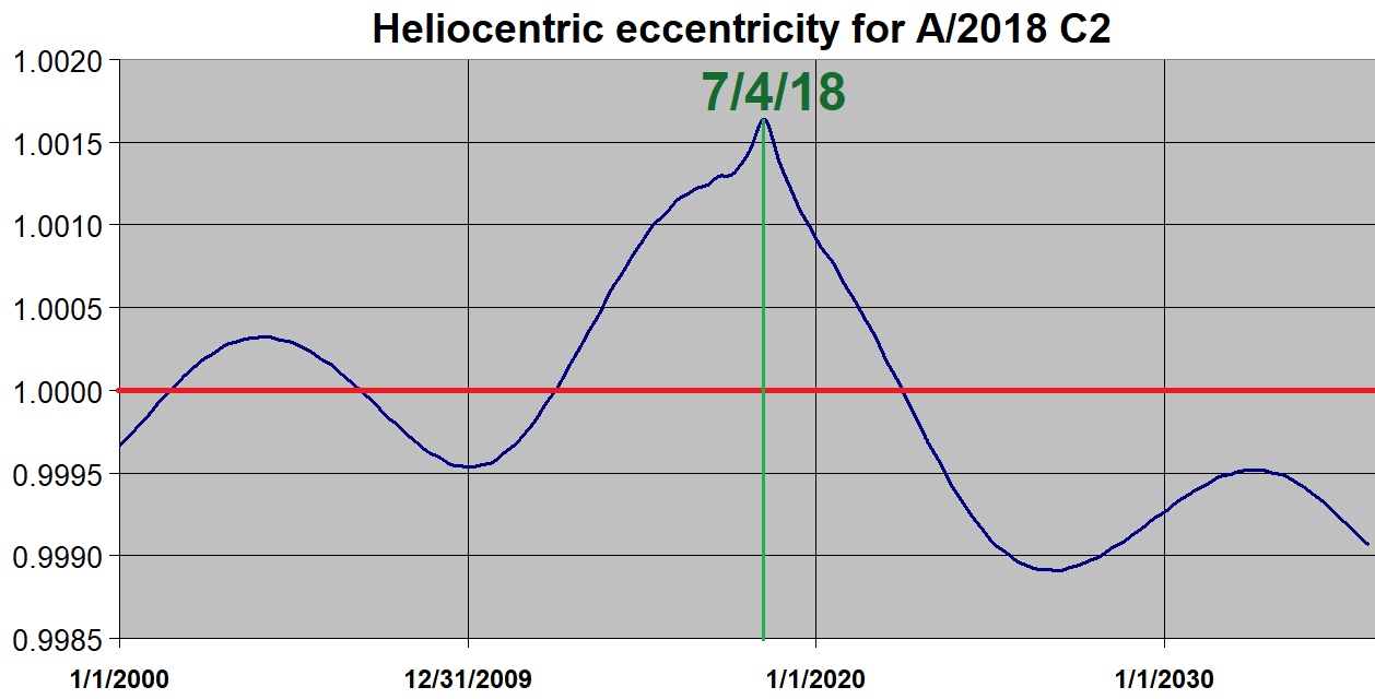 A/2018 C2 "interstellar" asteroid daily eccentricity (heliocentric) 2000-2035